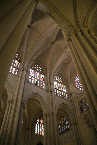 Nothing like a good gothic cathedral to put the glory of god in you. And I'm not being ironic about it either.